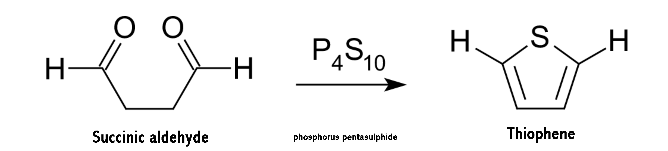 Thiophene Synthesis from succinic aldehyde